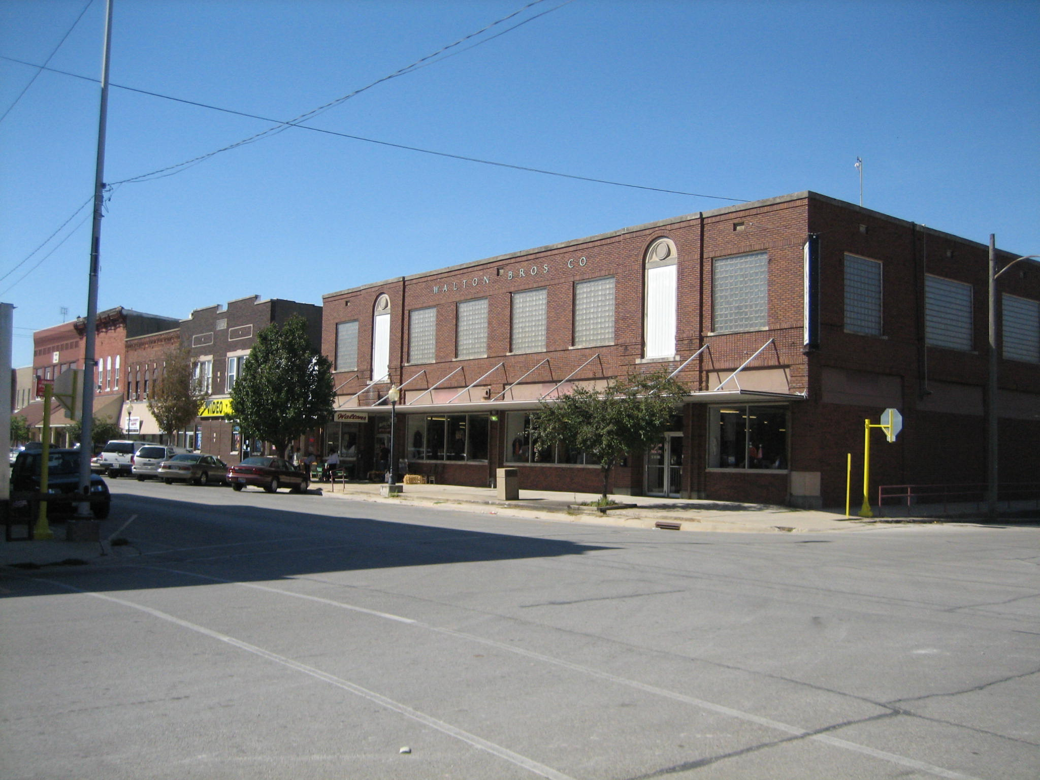 Downtown, Fairbury, Illinois, USA. Walton Brothers Department Store, Fairbury, Illinois, USA, Downtown, still operating as a department store.